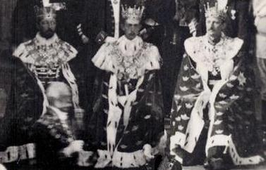 Swedish dukes at the opening of the Swedish Parliament in 1905 (Princes in coronets l-r: Eugen, Wilhelm, & Carl);Place: Throne Room, Royal Palace, Stockholm, Sweden